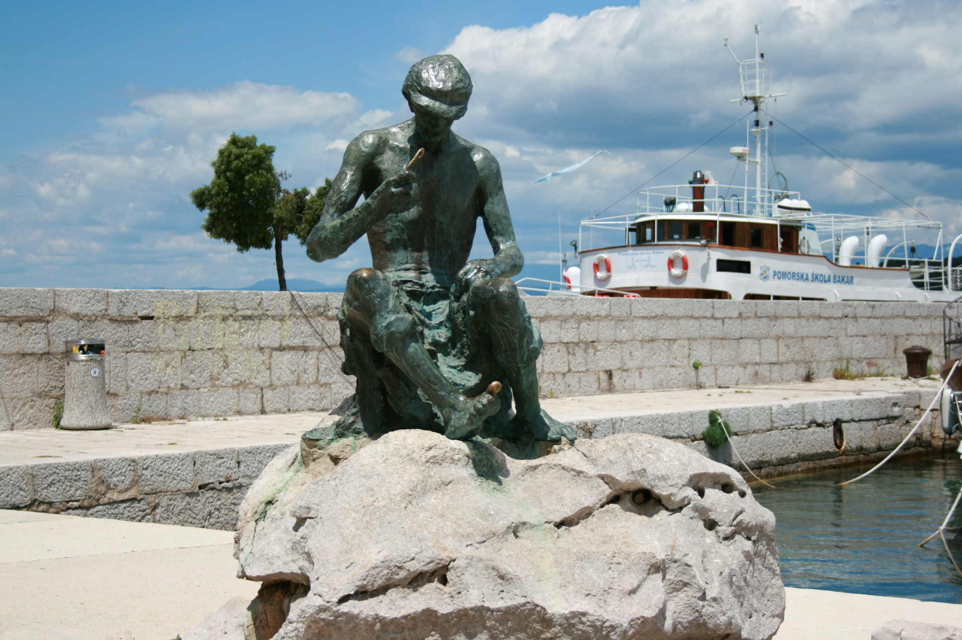 Monument to fisherman on the quay in Njivice on the island of Krk, Croatia.